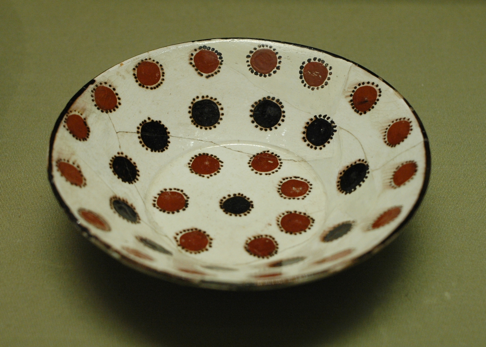 Small cup.